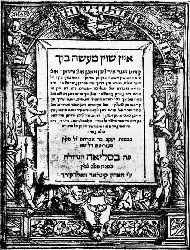 Title page of the Maasebuch first edition, Basel 1602. Scanned from Das Ma'assebuch, seine Entstehung und Quellengeschichte, 1933.